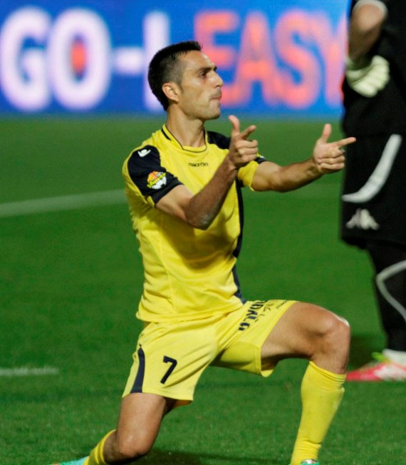 Zahavi celebrating after scoring a goal against Hapoel Tel Aviv